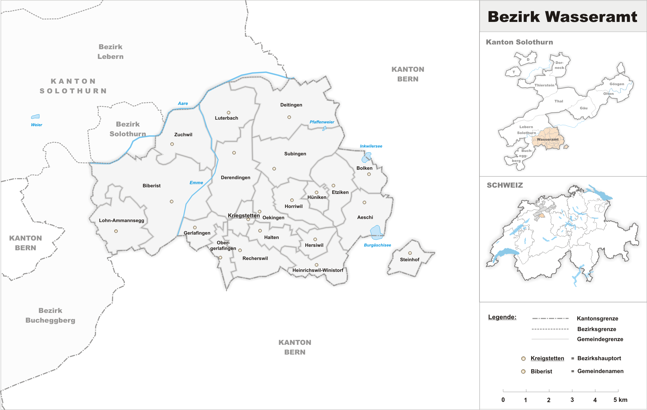 Municipalities in the district of Wasseramt